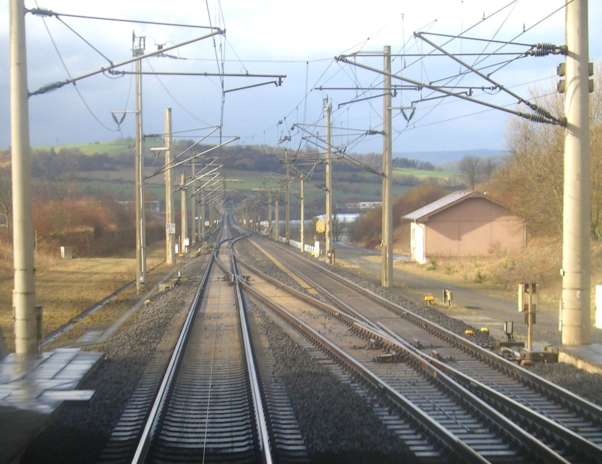 Double rail crossover at Richthof, Germany, between Kircheim and Langenschwarz station on the Hanover–Würzburg high-speed railway.